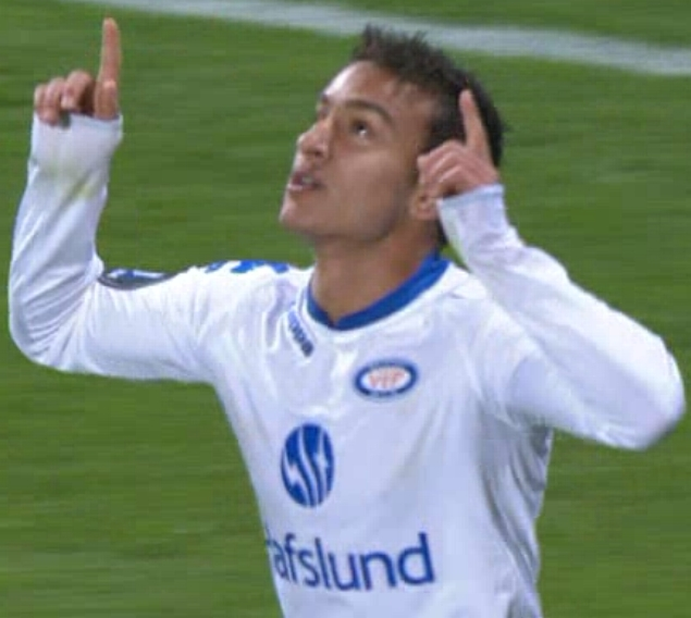 Picture from the Match Sandefjord vs Vålerenga, after Fellah goals and makes it 0-1 to Vålerenga.